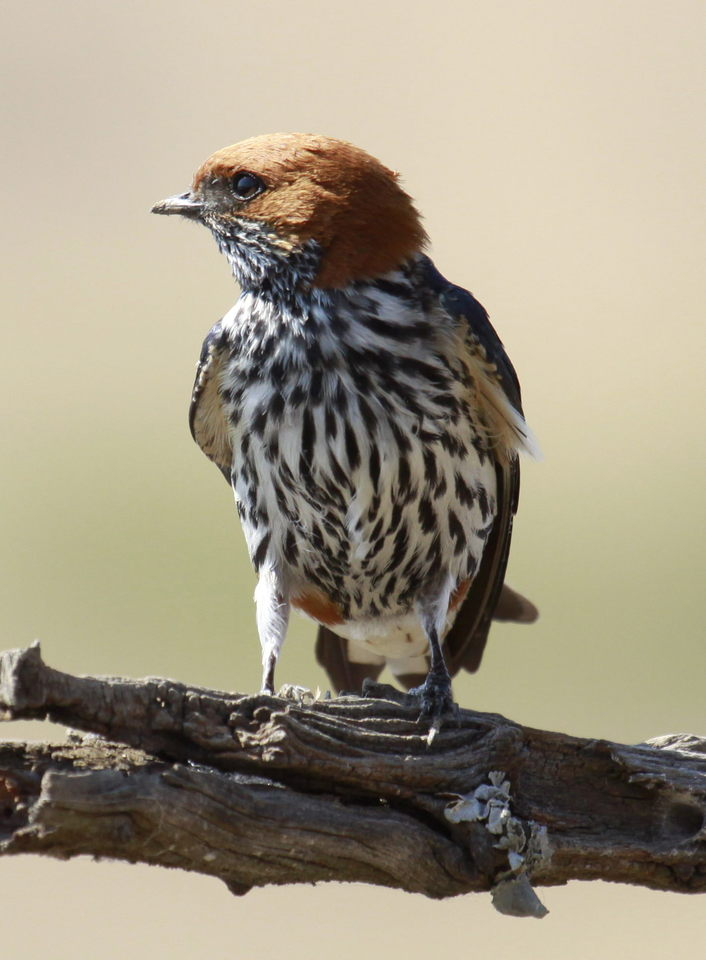 Lesser Striped Swallow, Cecropis abyssinica at Pilanesberg National Park, South Africa